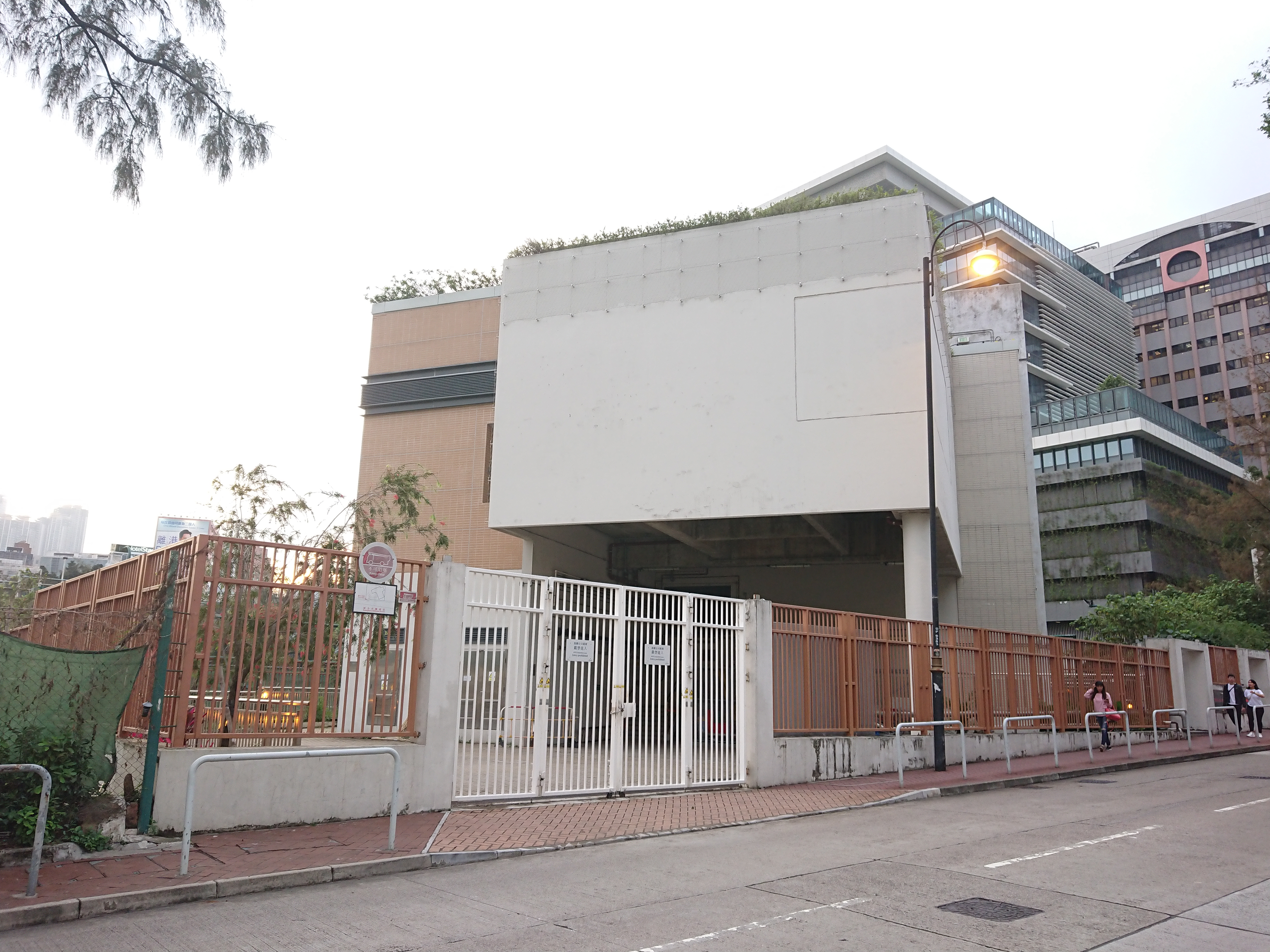 MTR Kwun Tong Line Extension Wylie Road Ancillary Building